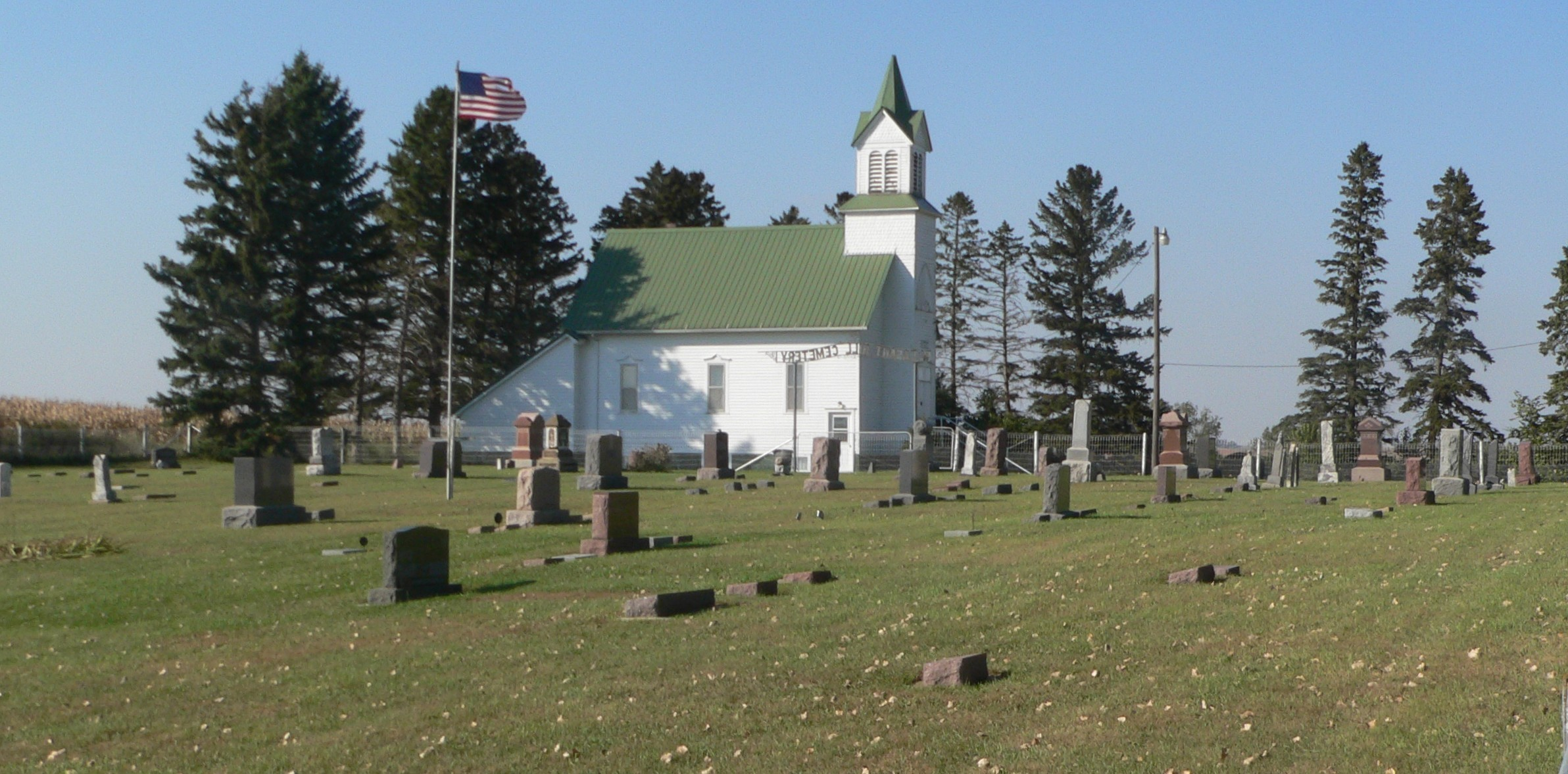 Pleasant Hill Chapel, located at 31141 476th Avenue in rural Union County, South Dakota; seen from the south-southeast.